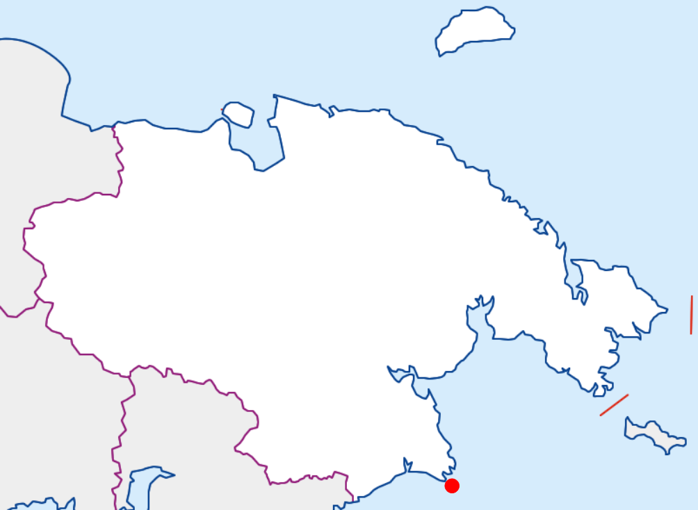 Cape Navarin on the Chukotka Autonomous Okrug map